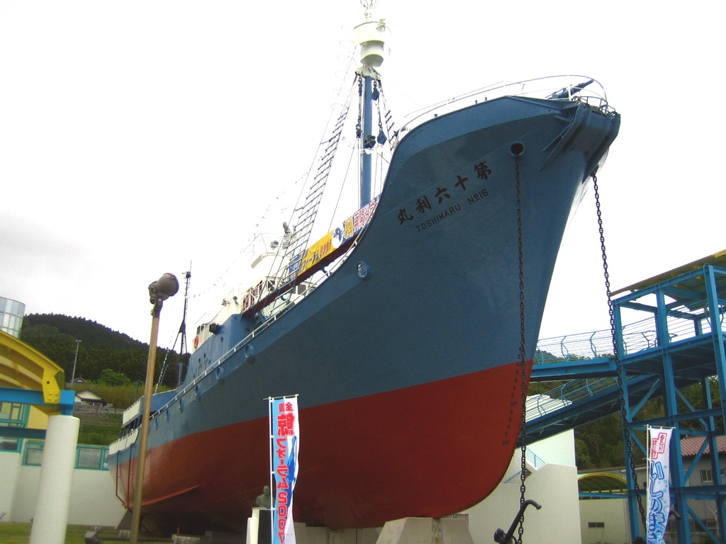 Japasense Whaler at Oshika Whale Museum